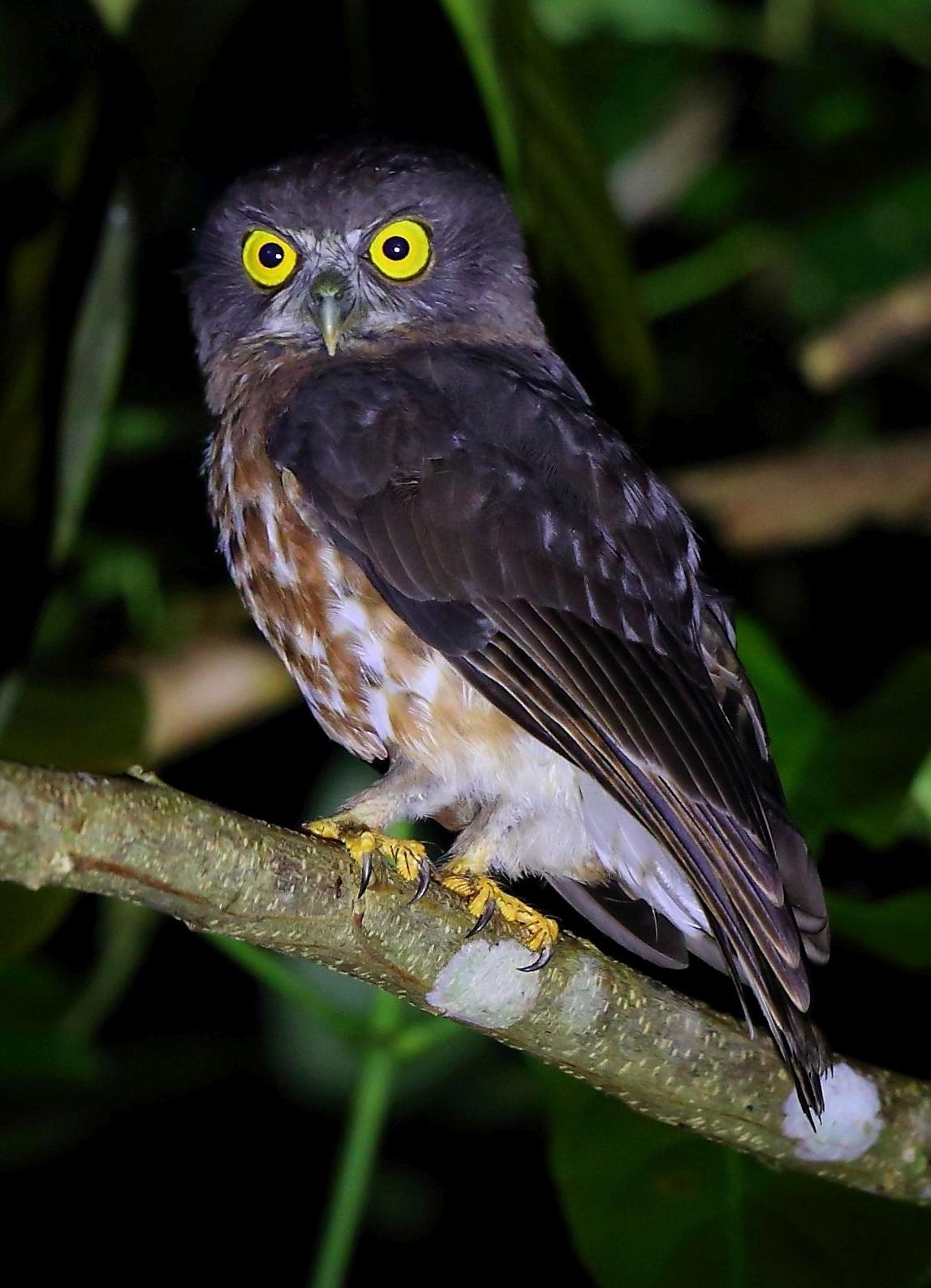 Andaman Hawk-Owl (endemic to Andaman Islands)